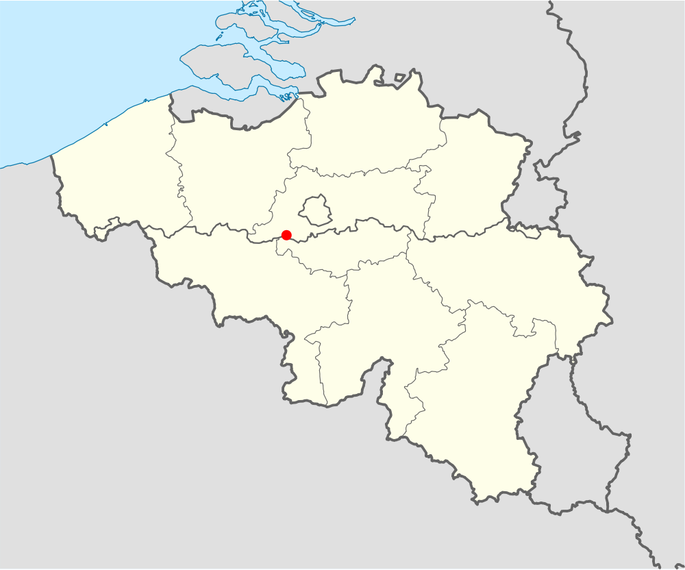 Location of 2010 Halle train collision